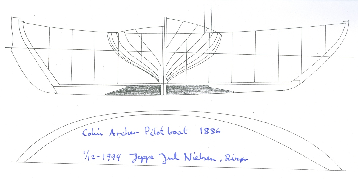 Colin Archer Pilot Boat 1886